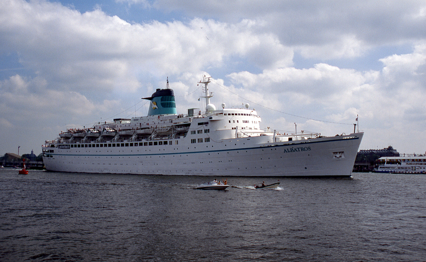 SS Albatros departing Amsterdam on a cruise. Other names: RMS Sylvania, Fairwind, Sitmar Fairwind, Dawn Princess. Information about Albatros (ship) may be found at IMO 5347245.A ship can change name and flag state through time, but the IMO number remains the same through the hull's entire lifetime. As a result, it can be useful to identify a ship by using the IMO number. Scanned from a Fujichrome 35mm slide.